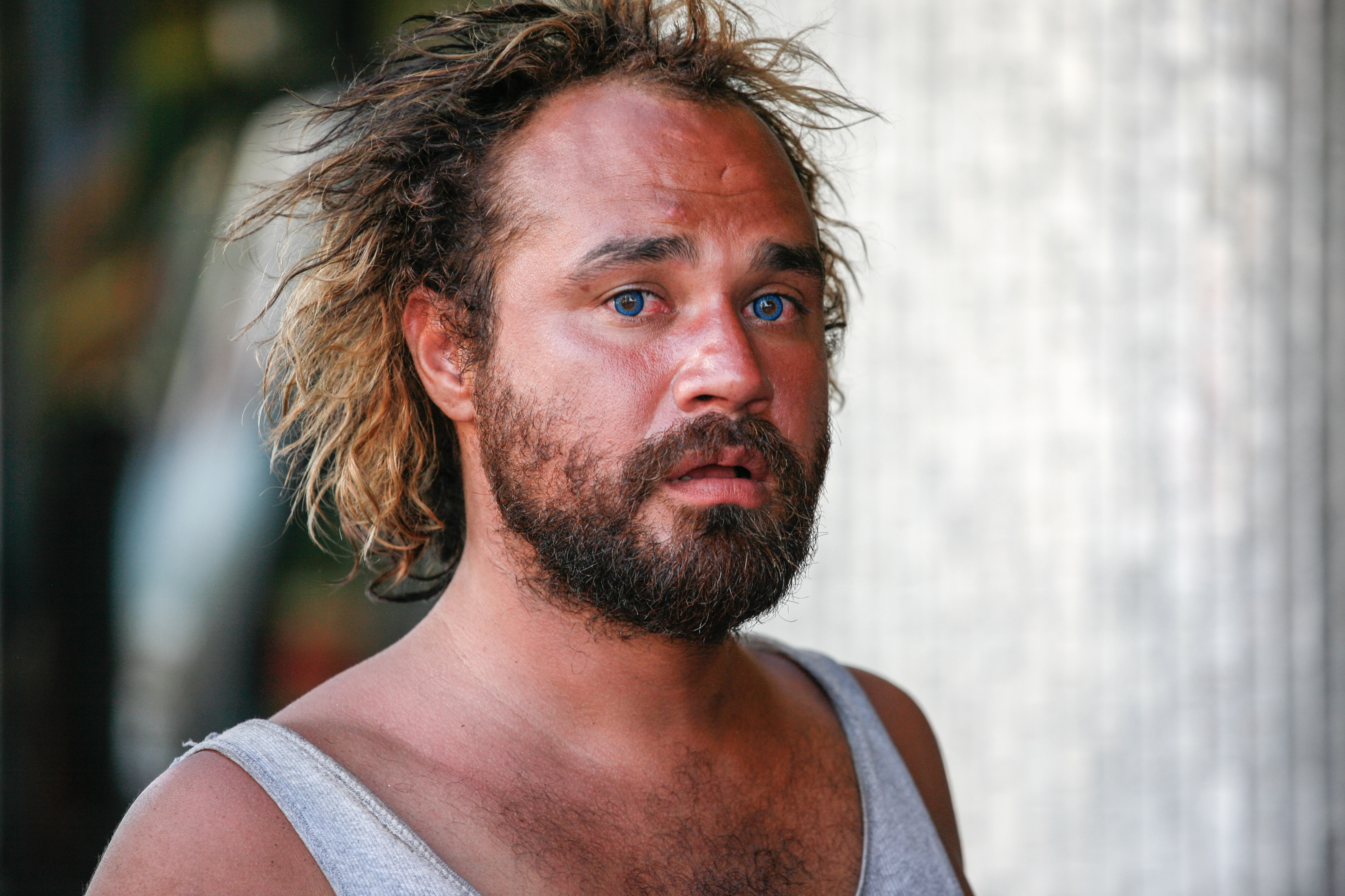 One Heavy Day/Night